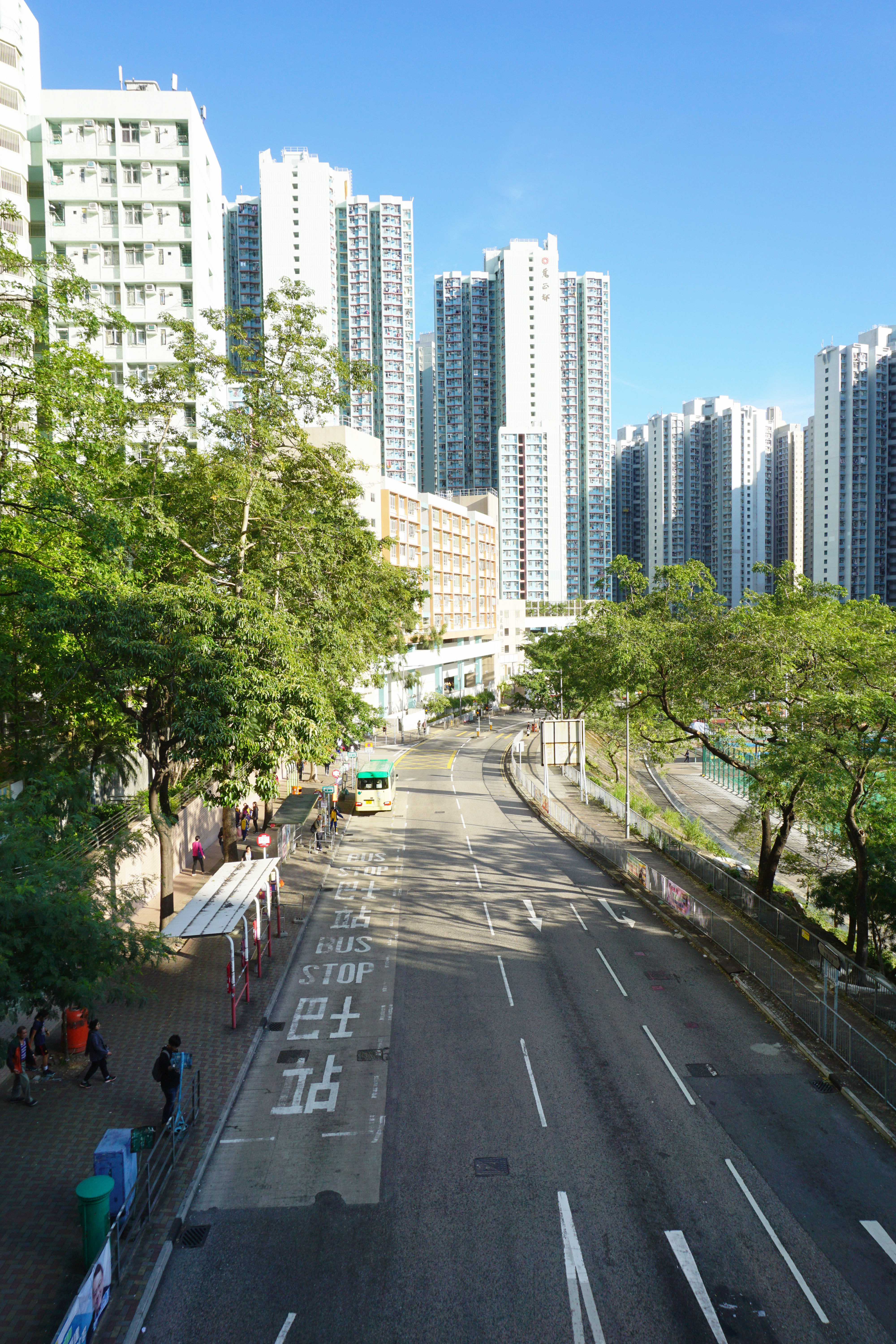 Tsz Wan Shan Road in Tsz Wan Shan, Hong Kong.